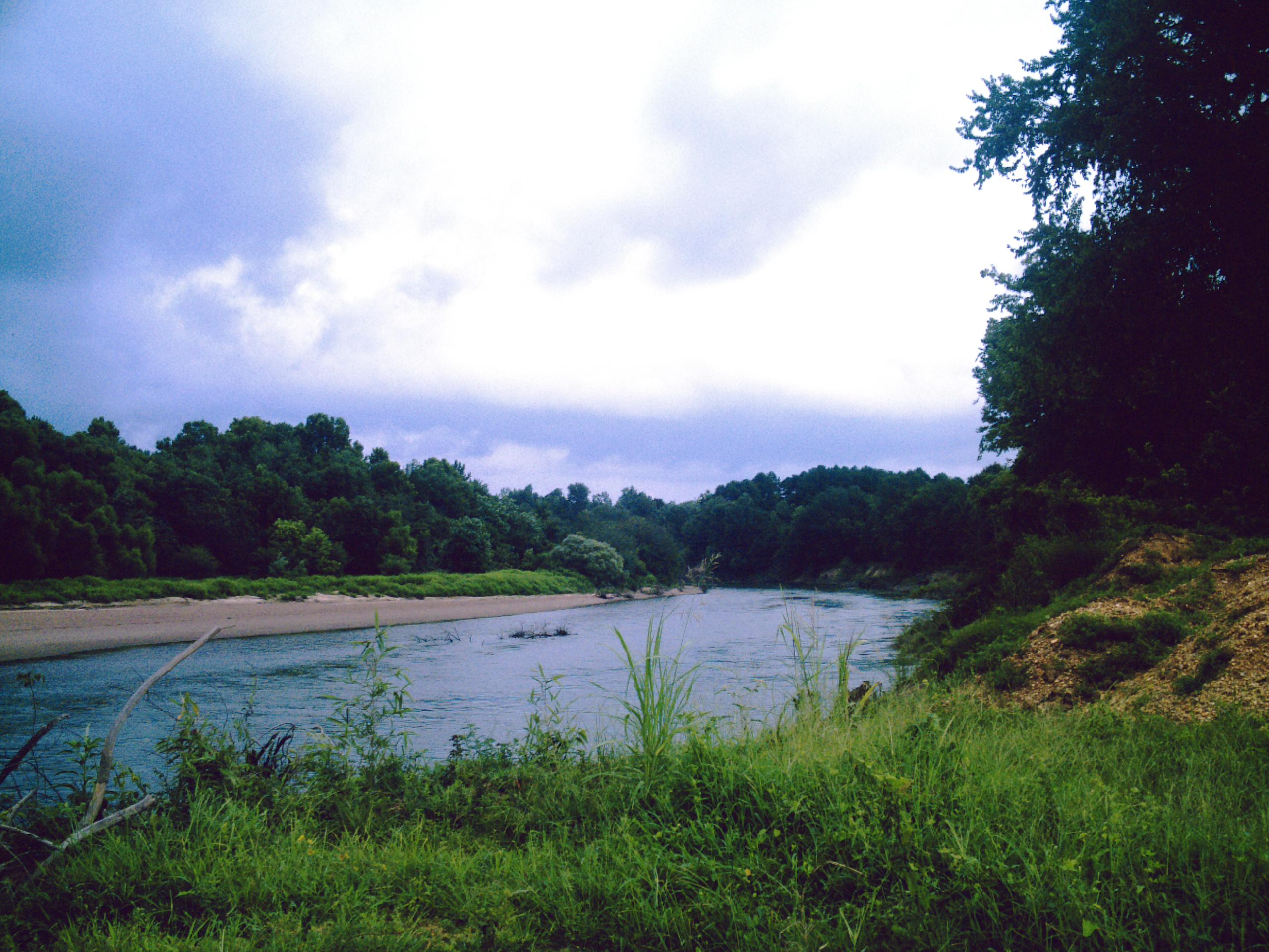 View of the Ouachita River near Camden, AR